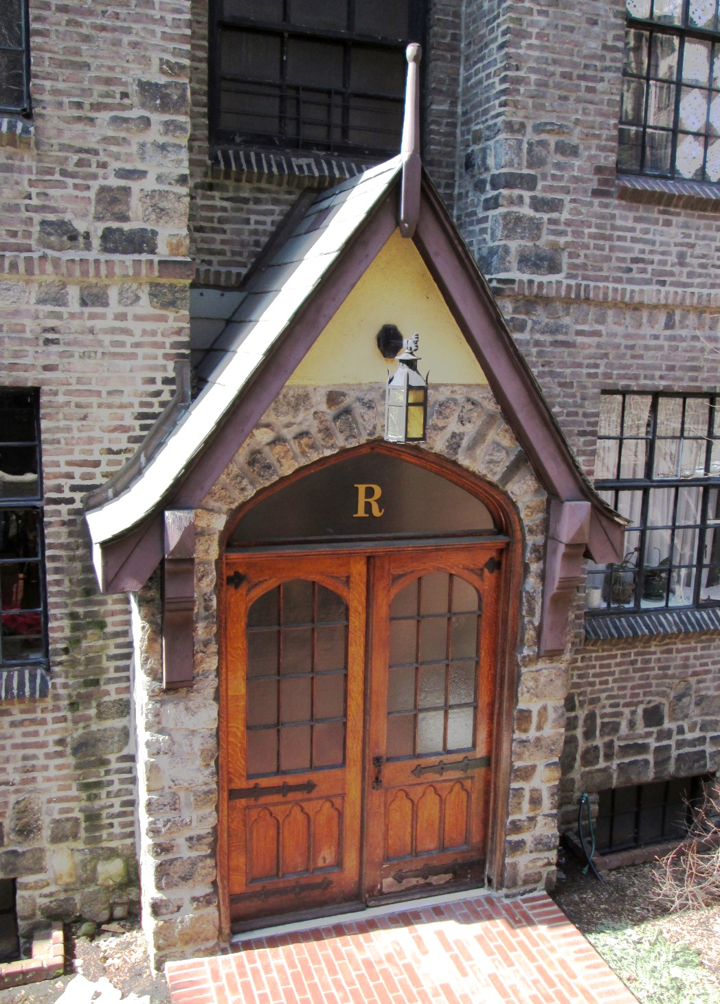 The Hudson View Gardens cooperative apartment complex on Pinehurst Avenue and Cabrini Boulevard in the near vicinity of West 183rd and 185th Streets in the Hudson Heights neighborhood of the Washington Heights, Manhattan, New York City was built in 1923-25 and was designed by George F. Pelham in the Tudor revival style, with landscaping by Robert B. Cridland. At the time it was built, it was the largest housing cooperative in New York. (Sources: AIA Guide to NYC (5th ed.) and Hudson View Gardens website) This image shows the entrance to Building R, one of the four-story walk-up buildings, located on the private interior access road.